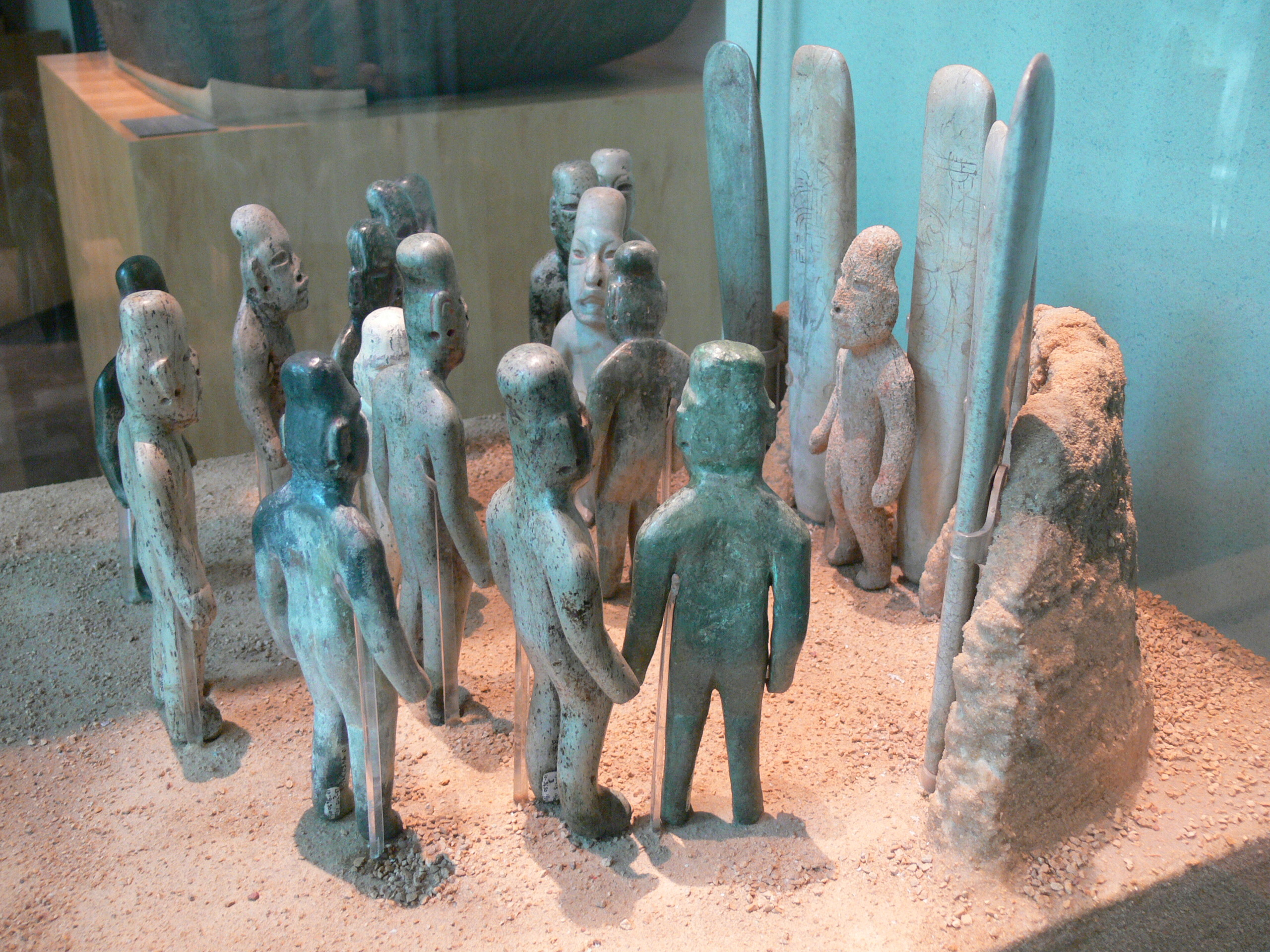 National Museum of Anthropology in Mexico City. Offering 4 from La Venta, an Olmec site